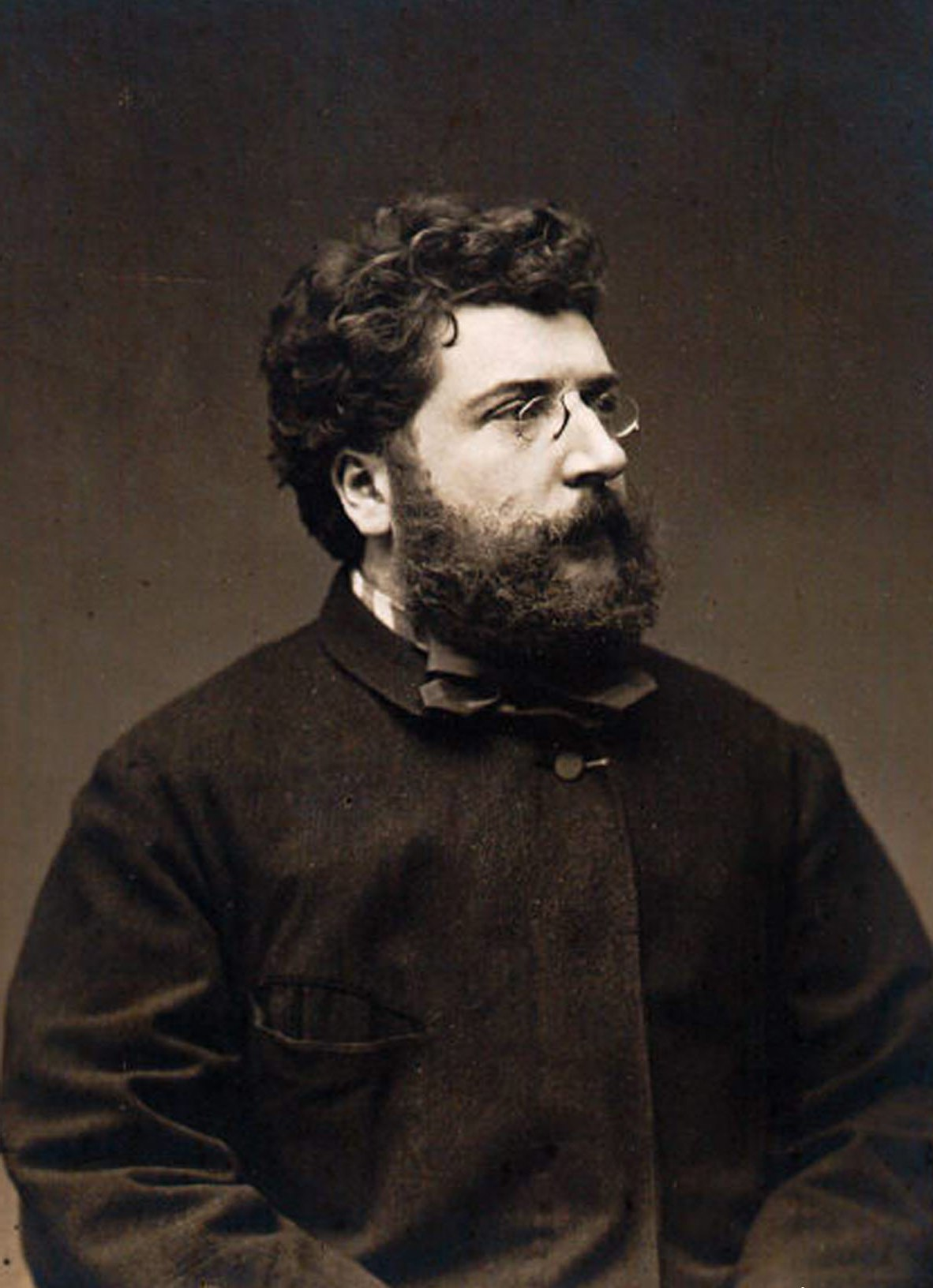 Portrait of Georges Bizet (1838–1875): this image has been published in: Meilhac, Henri; Halévy, Ludovic (1895) "Frontispiece" in Carmen: An Opera in Four Acts, New York, United States: G. Schirmer Retrieved on 27 September 2011. Hervey, Arthur (July to December 1896). "Georges Bizet—A Biographical Sketch". The Strand Musical Magazine 4: 195. London, United Kingdom: George Newnes. Retrieved on 2011-09-27.